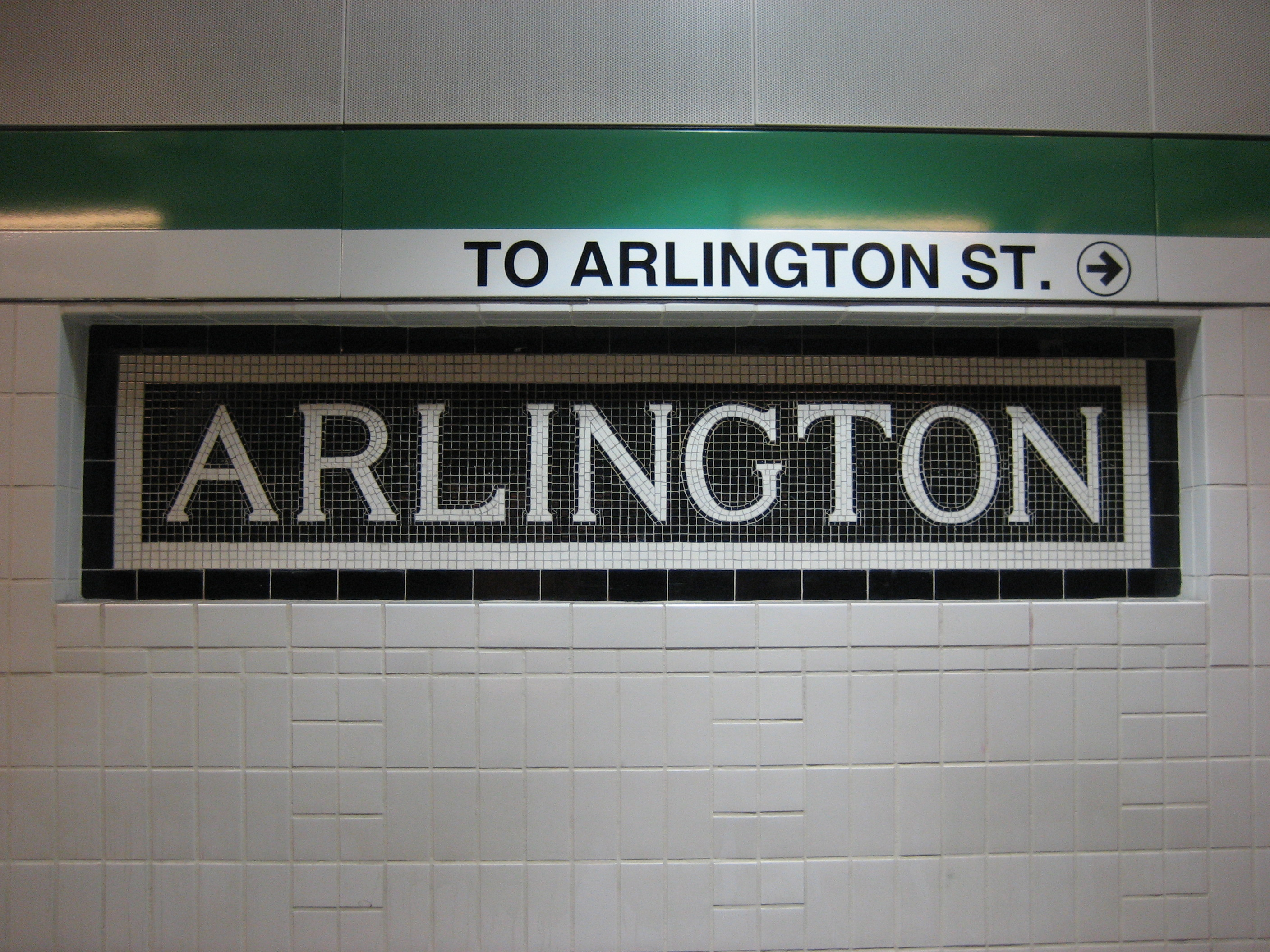 Old Arlington Station sign uncovered at the station during renovations and restored for a historical touch.